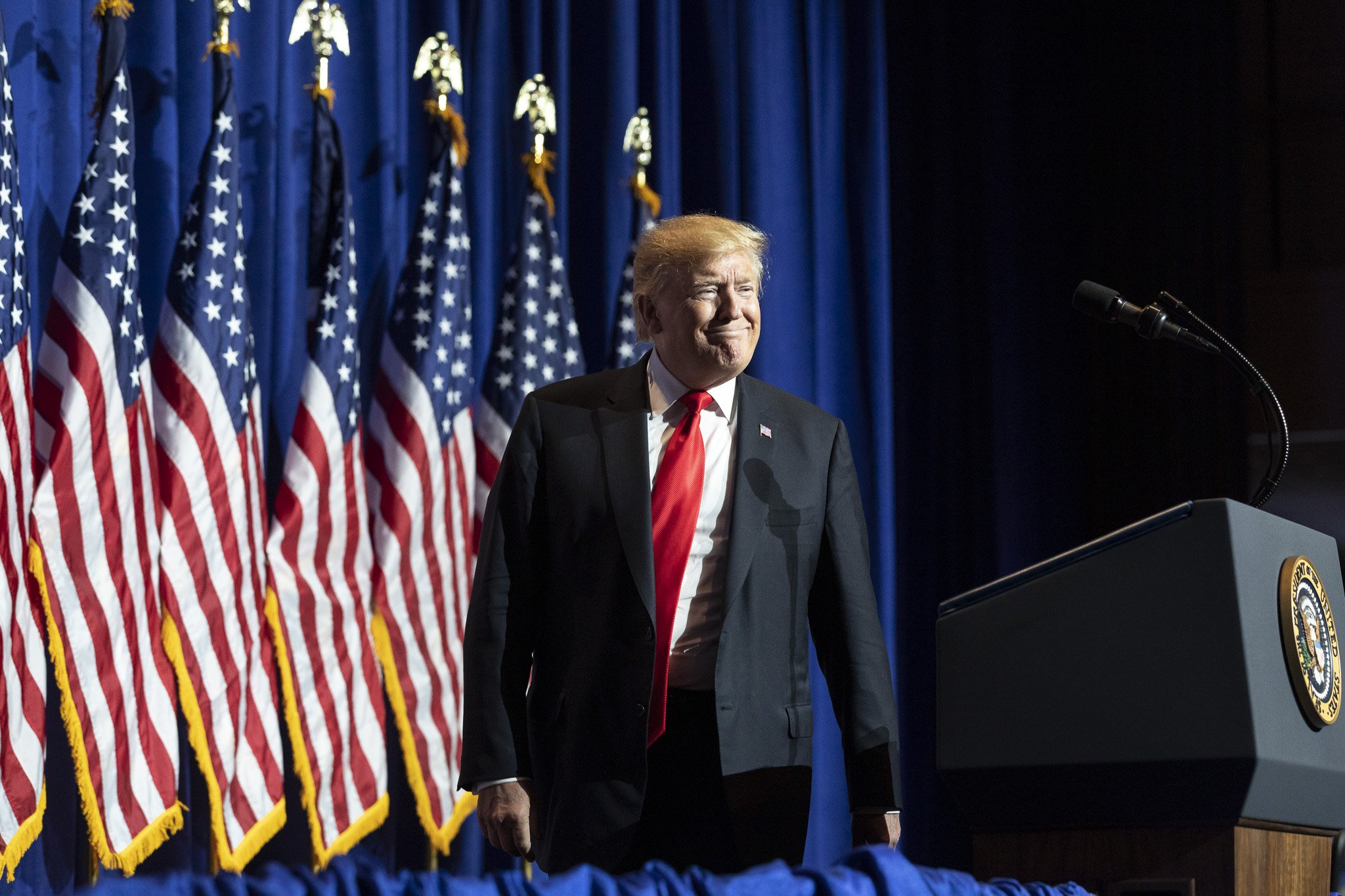 President Donald J. Trump speals in the 2019 Legislative Meetings and Trade Expo